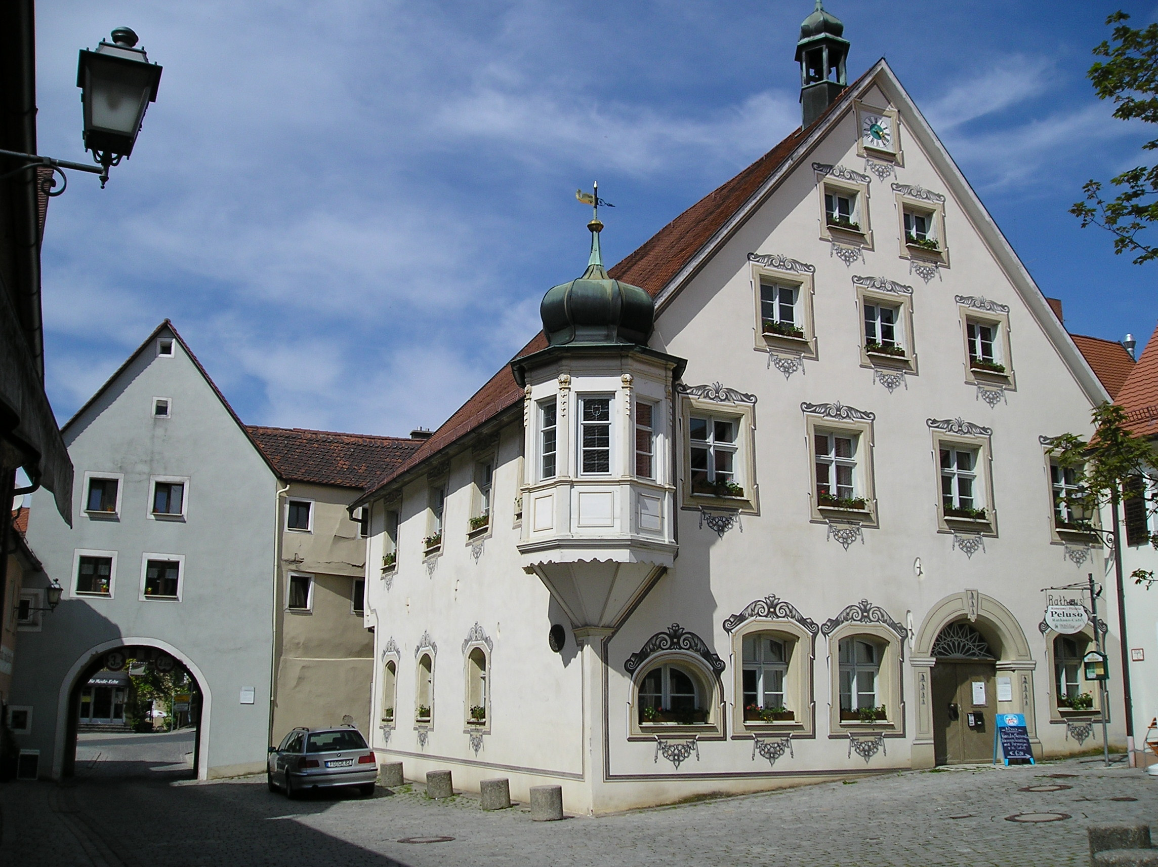 Old baroque town hall in the old town of Gräfenberg (Franconian Swiss mountain range, north Bavaria, Germany) at the central market place. On the left you can see the "Egloffsteiner Tor" gate in the city wall still sourrounding a substantial part of the old town.